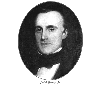 Mayors of Boston: An Illustrated Epitome of who the Mayors Have Been Published 1914